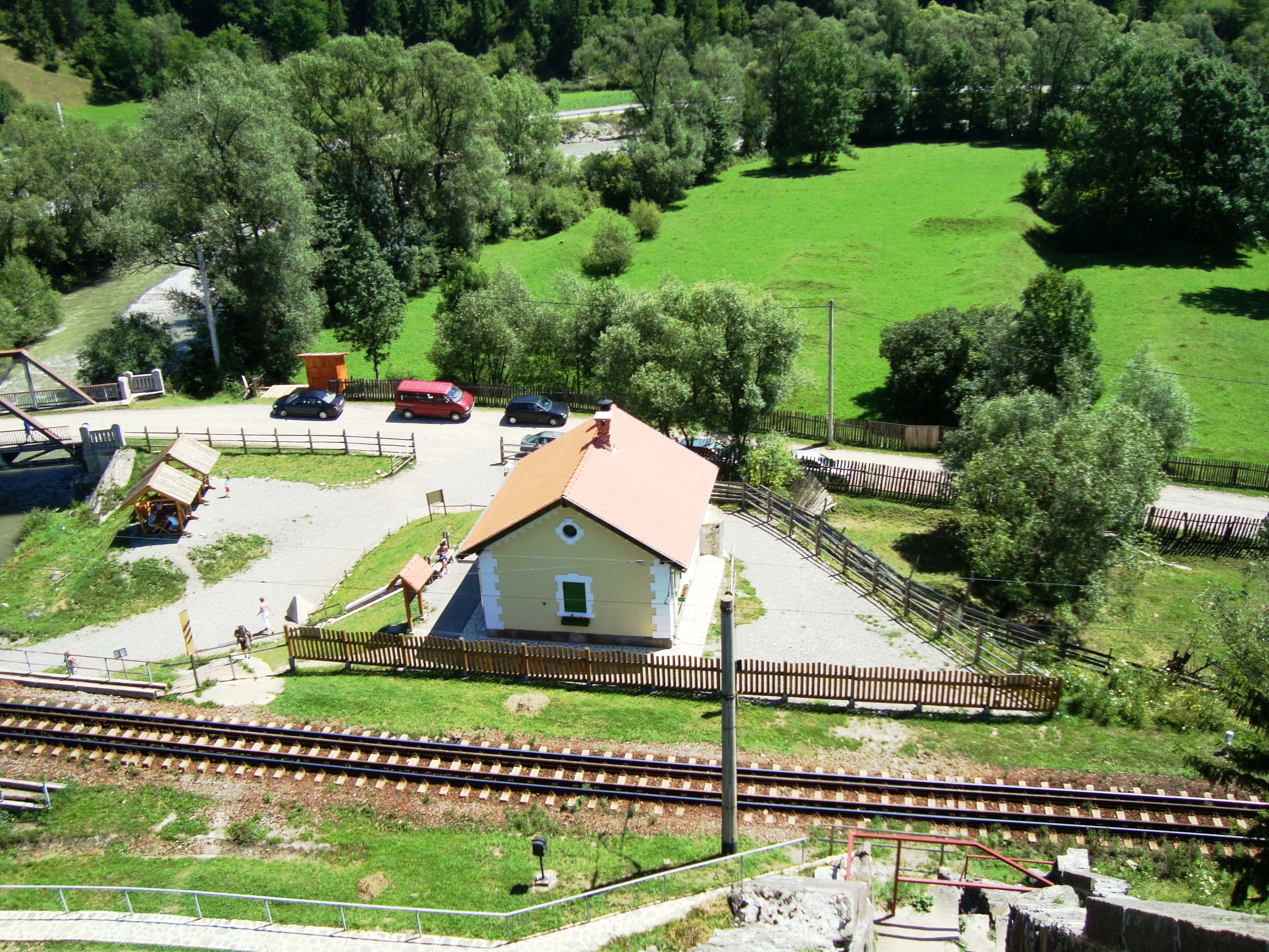 Guardhouse No. 30 of State Railways of Hungary located in most eastern position in the Greater Hungary near the former Romania/Hungary border (Trotuș River)